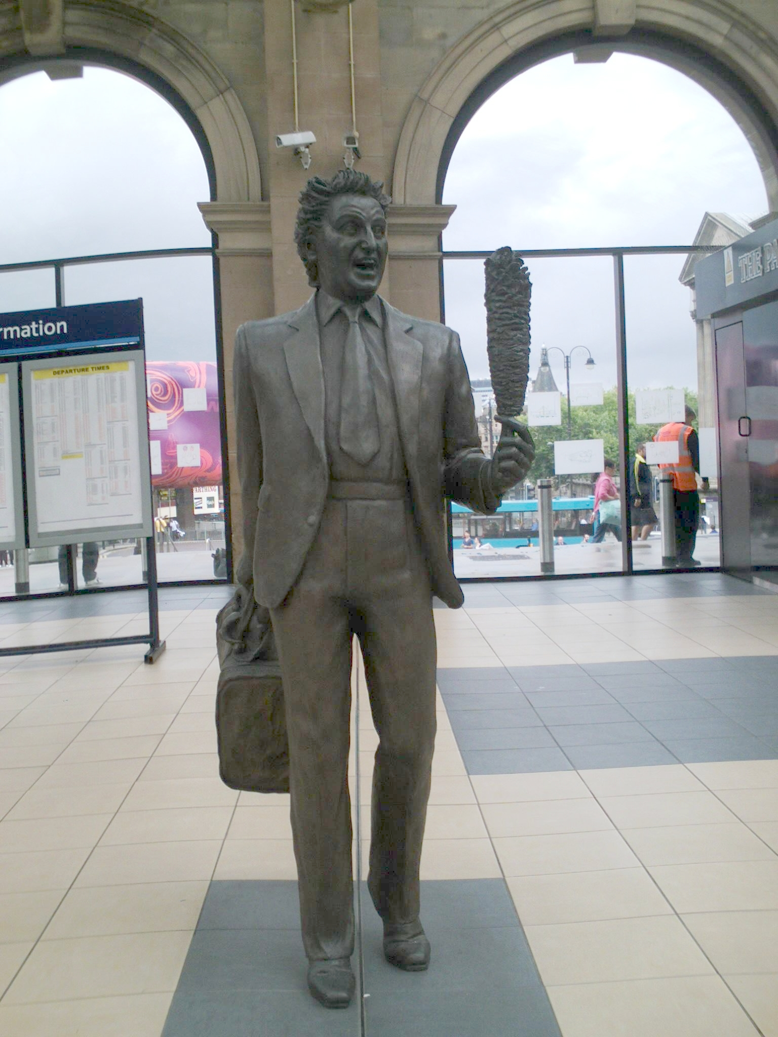 Statue of Ken Dodd at Lime Street Station, 2011